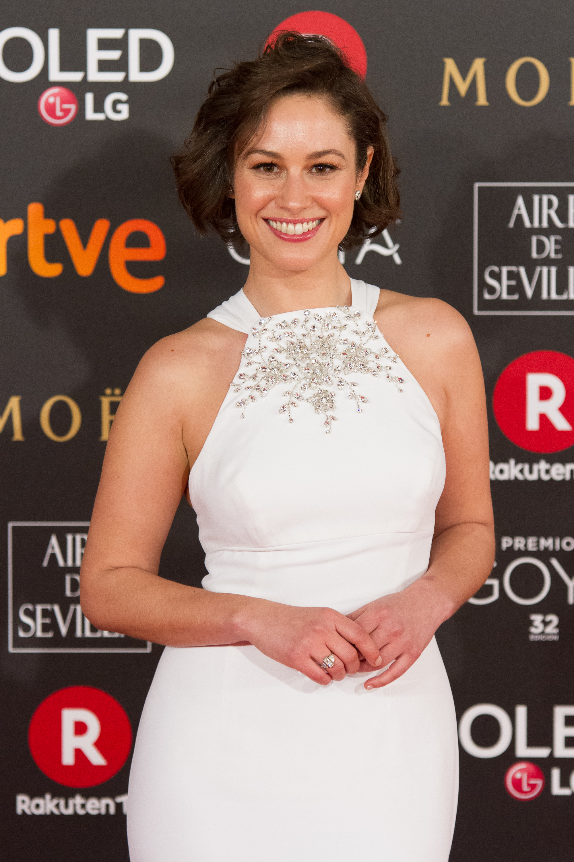 Aida Folch at the 32nd Goya Awards, 2018.